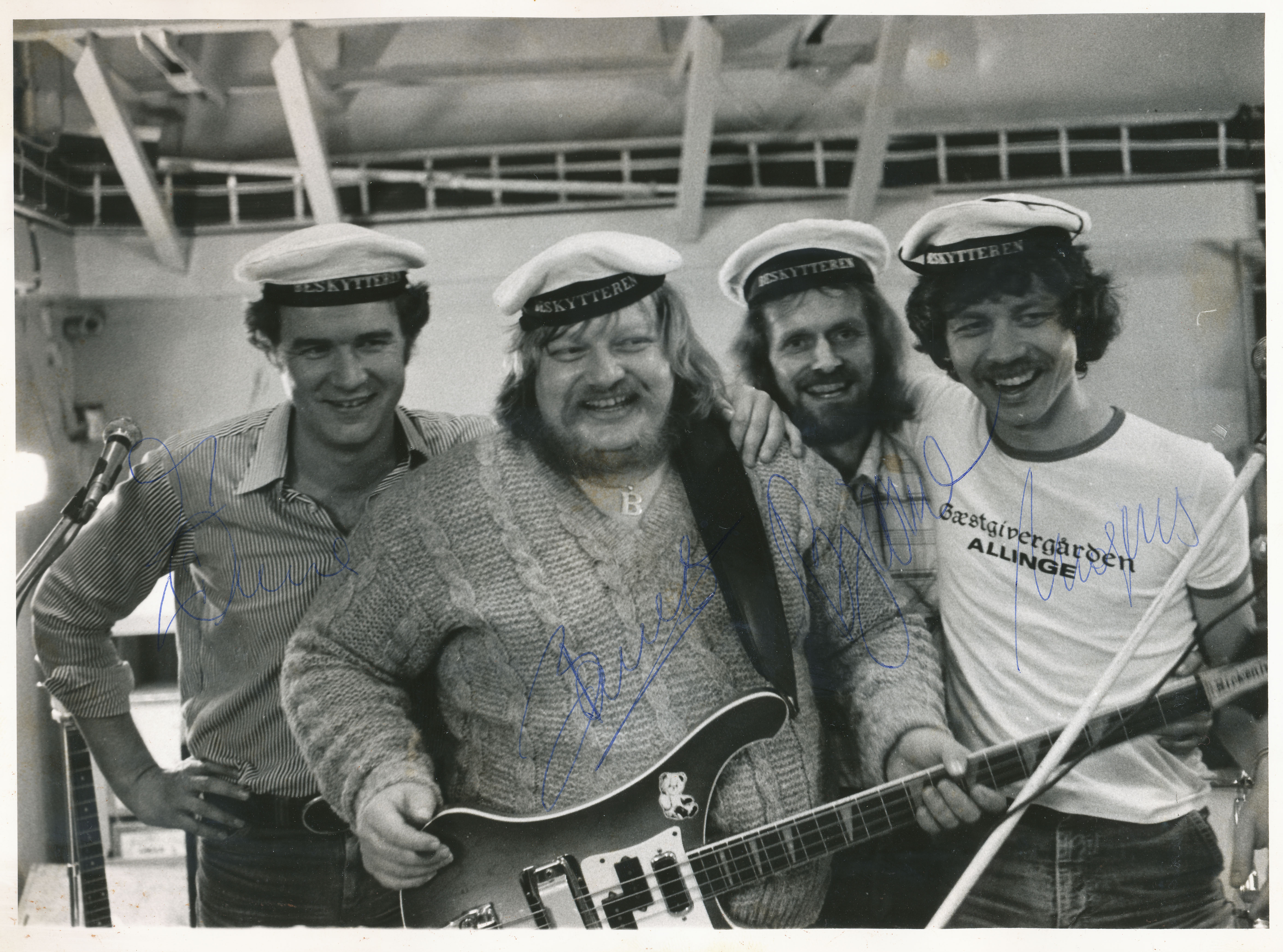 The danish popgroup 'Bamses Venner' in 1979 on the danish naval ship F340 Inspektionsskibet Beskytteren.